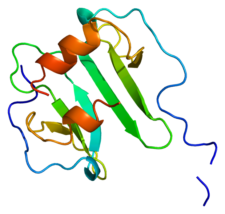 Structure of the CXCL12 protein. Based on PyMOL rendering of PDB 1a15.